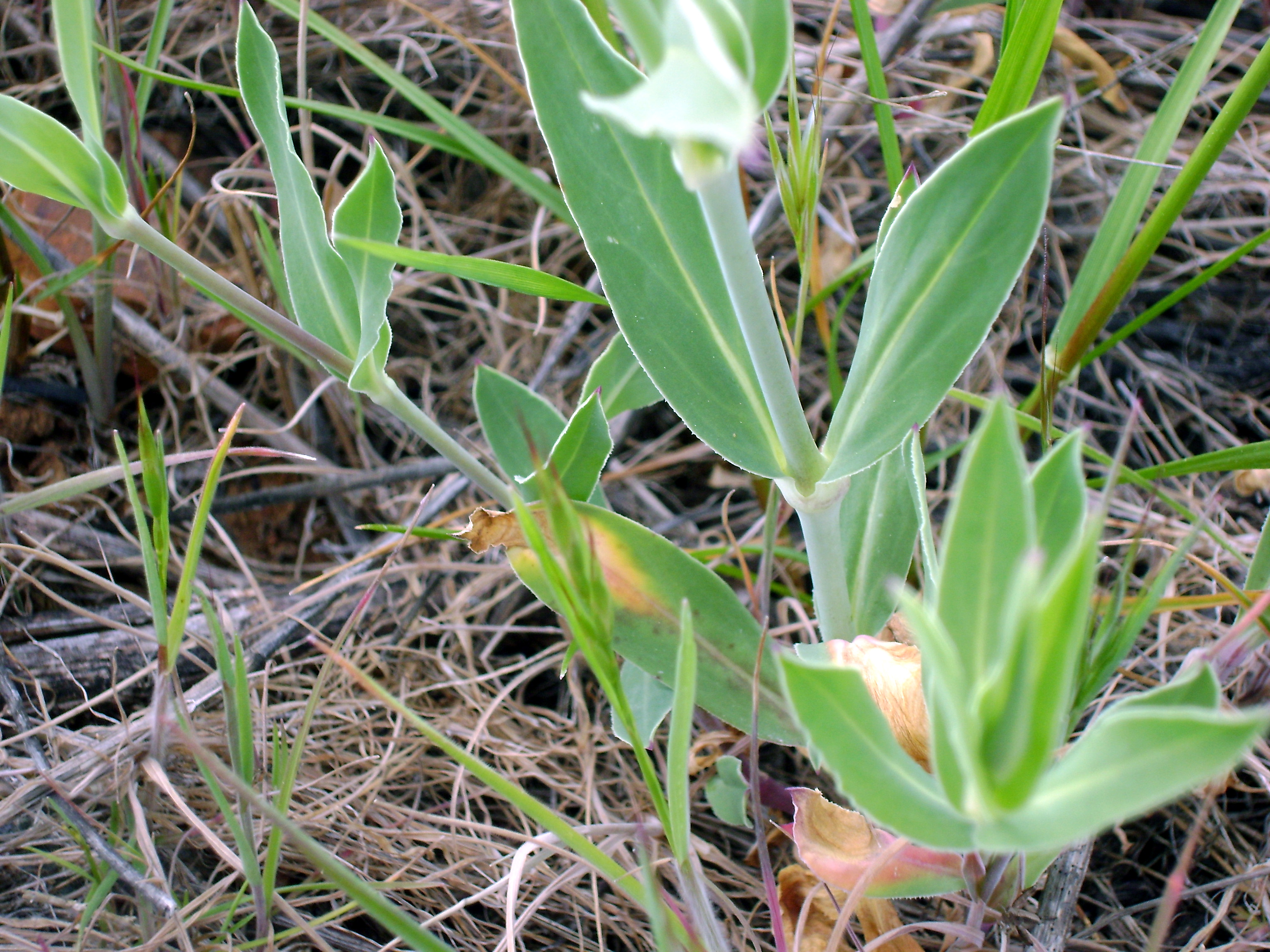 Silene vulgaris stem and leaves, Campo de Calatrava, Spain